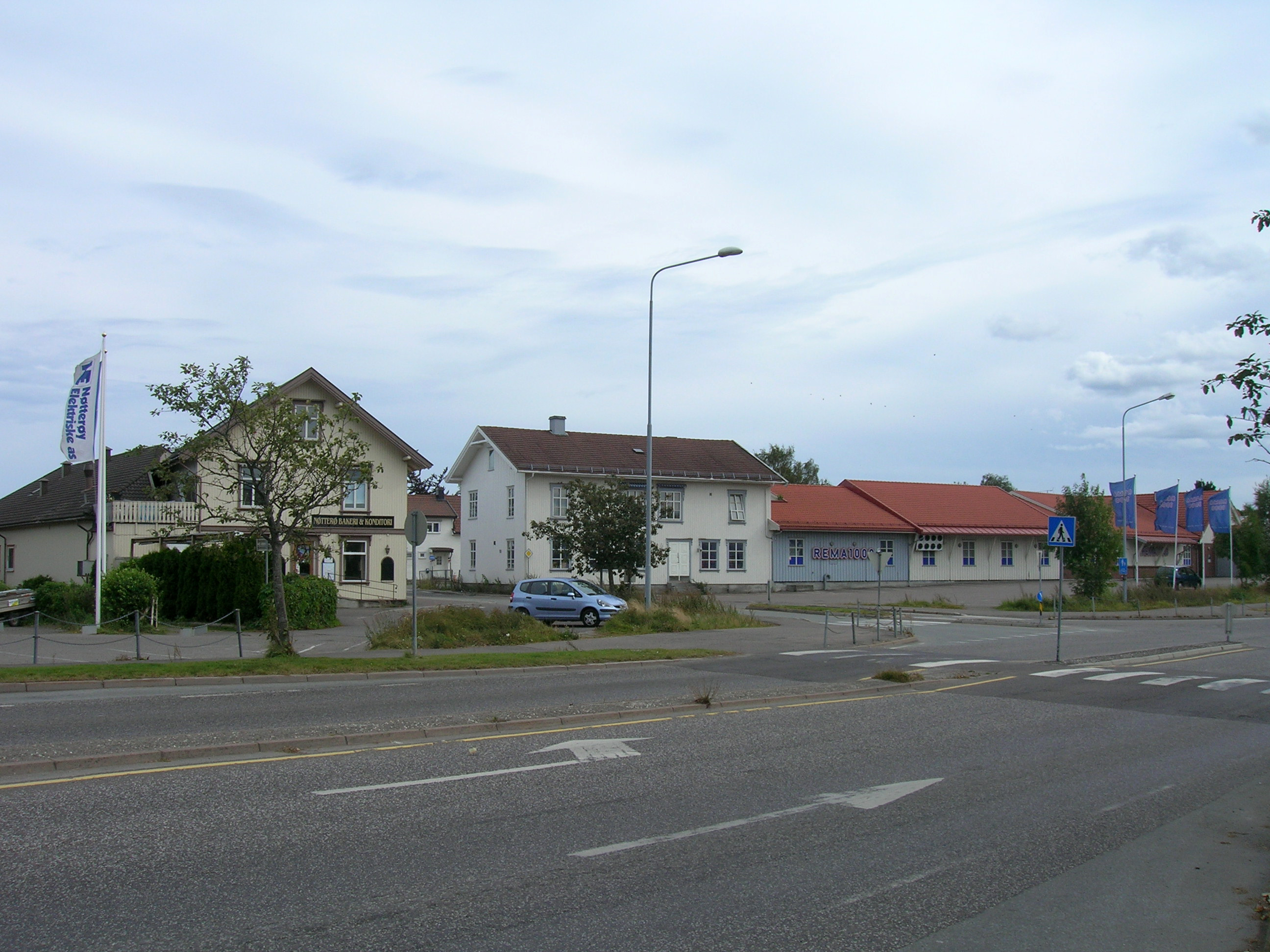 Borgheim, Nøtterøy, Nøtterøy